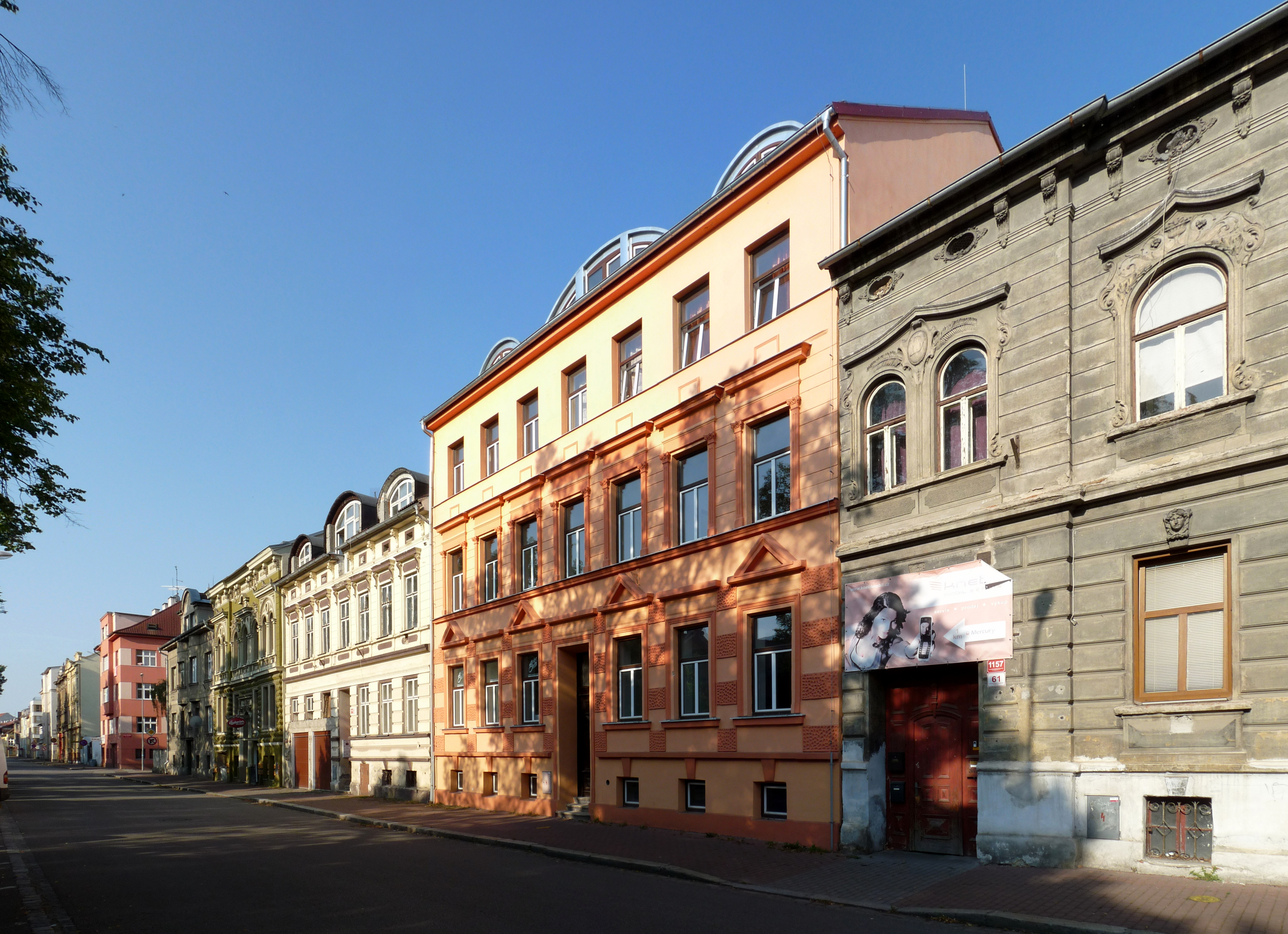 Otakarova Street in the town of České Budějovice, South Bohemian Region, Czech Republic.